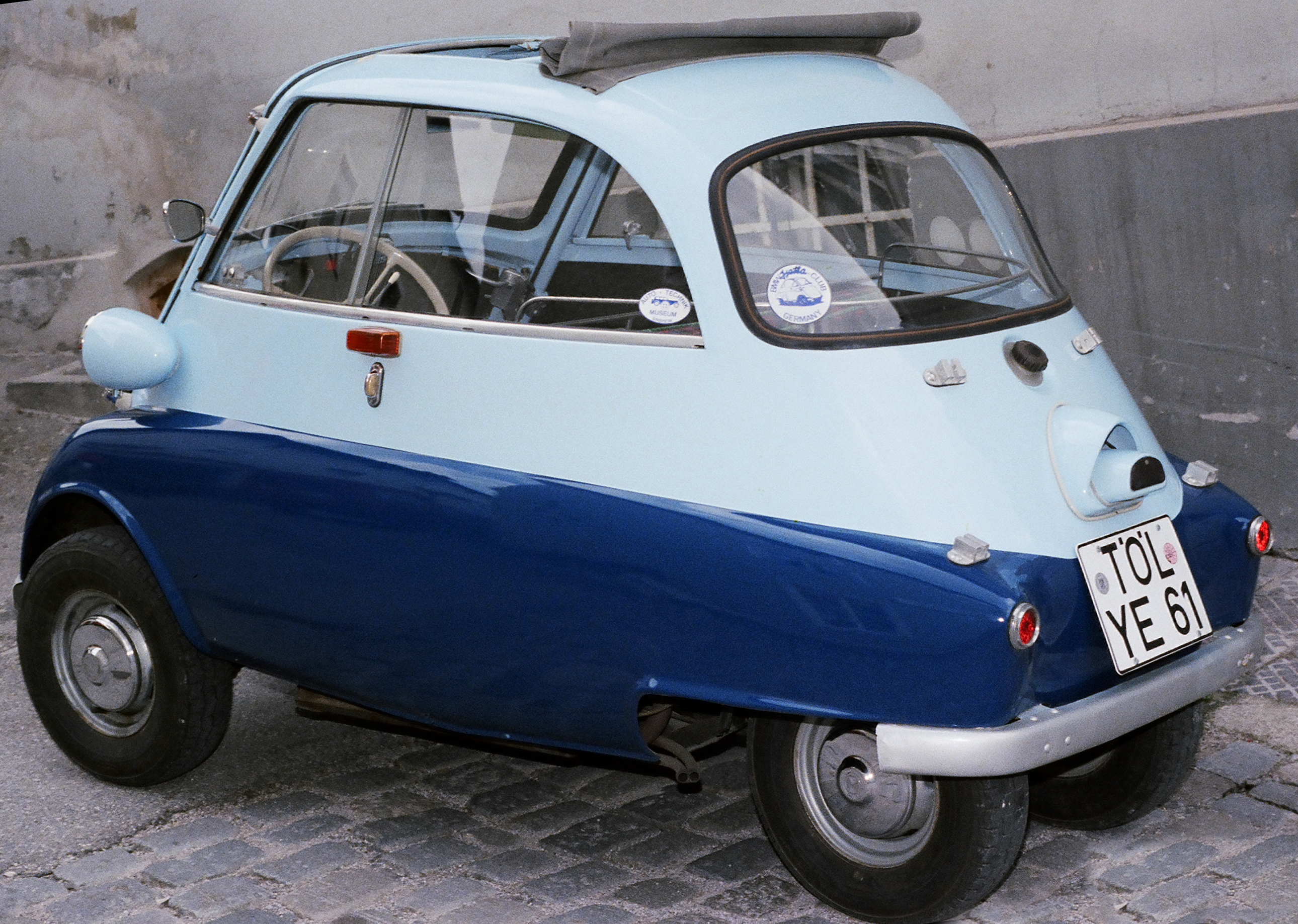 BMW Isetta 300 shot in Bad Tölz, Germany circa 1987_sideview